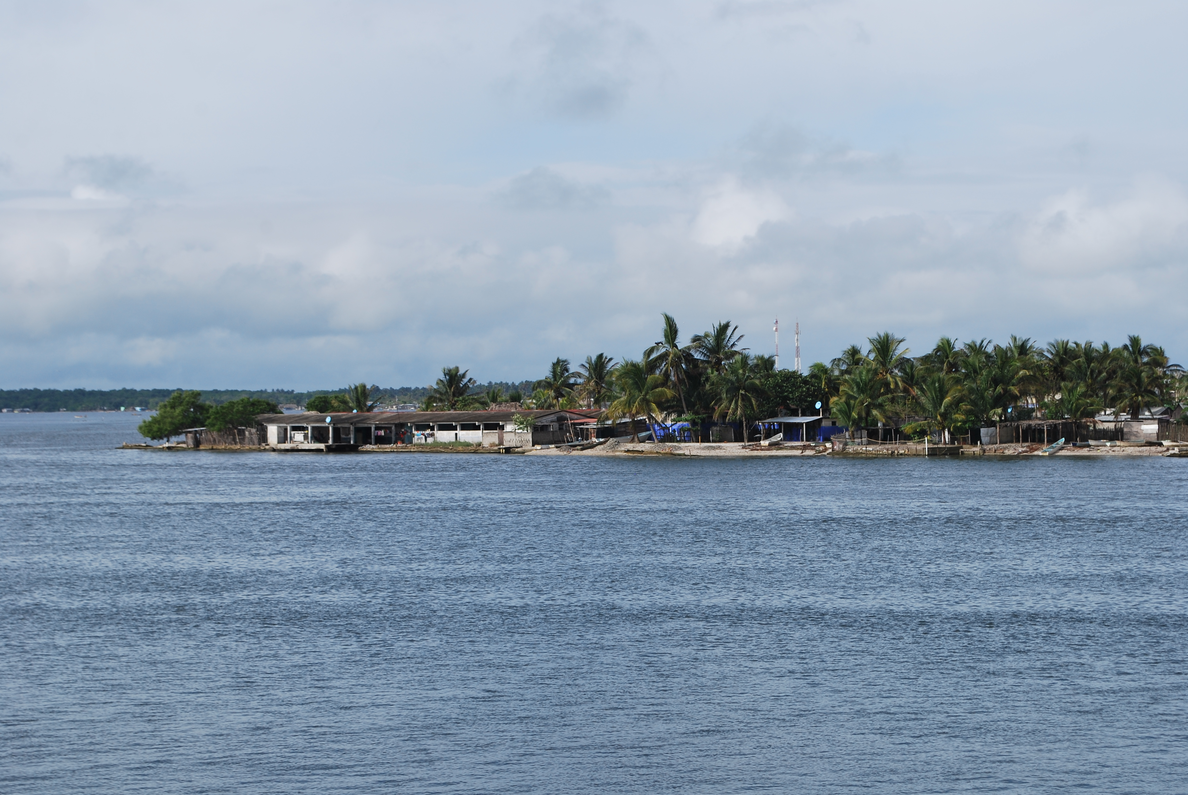 Looking towards Sanchez Magallanes from bridge in Tabasco, Mexico